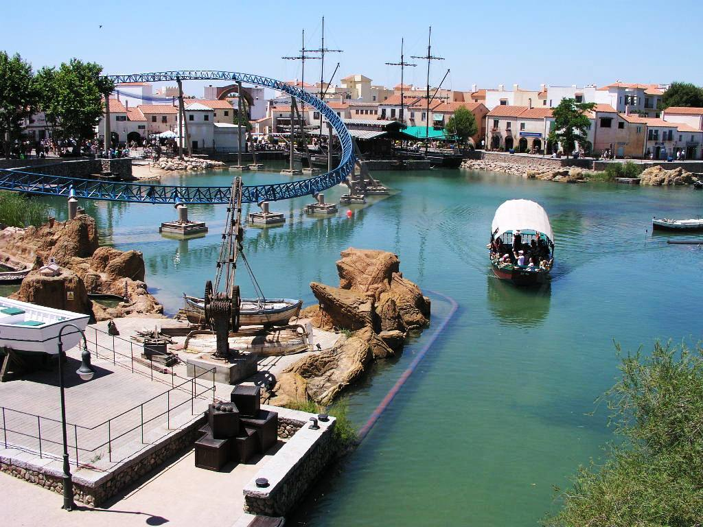 Picture of the lake and the rollercoaster Furius Baco in Port Aventura Park.